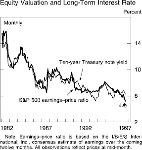 Fed model equilibrium